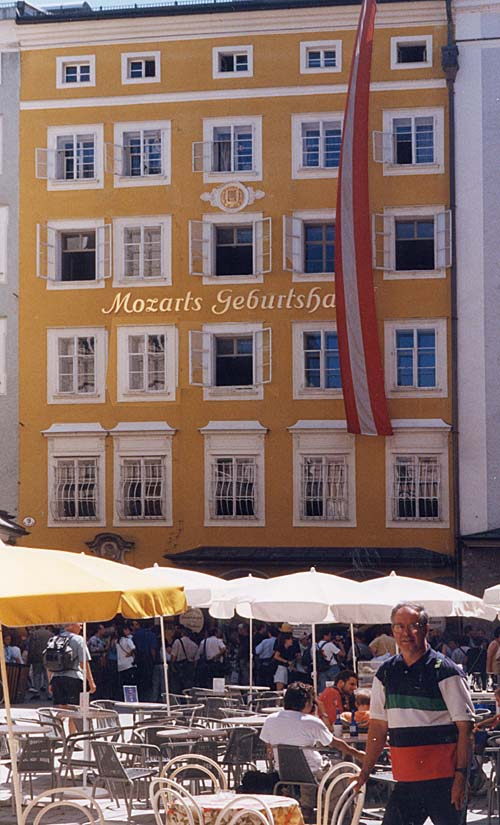 Austria, Salzburg, Getreidegasse